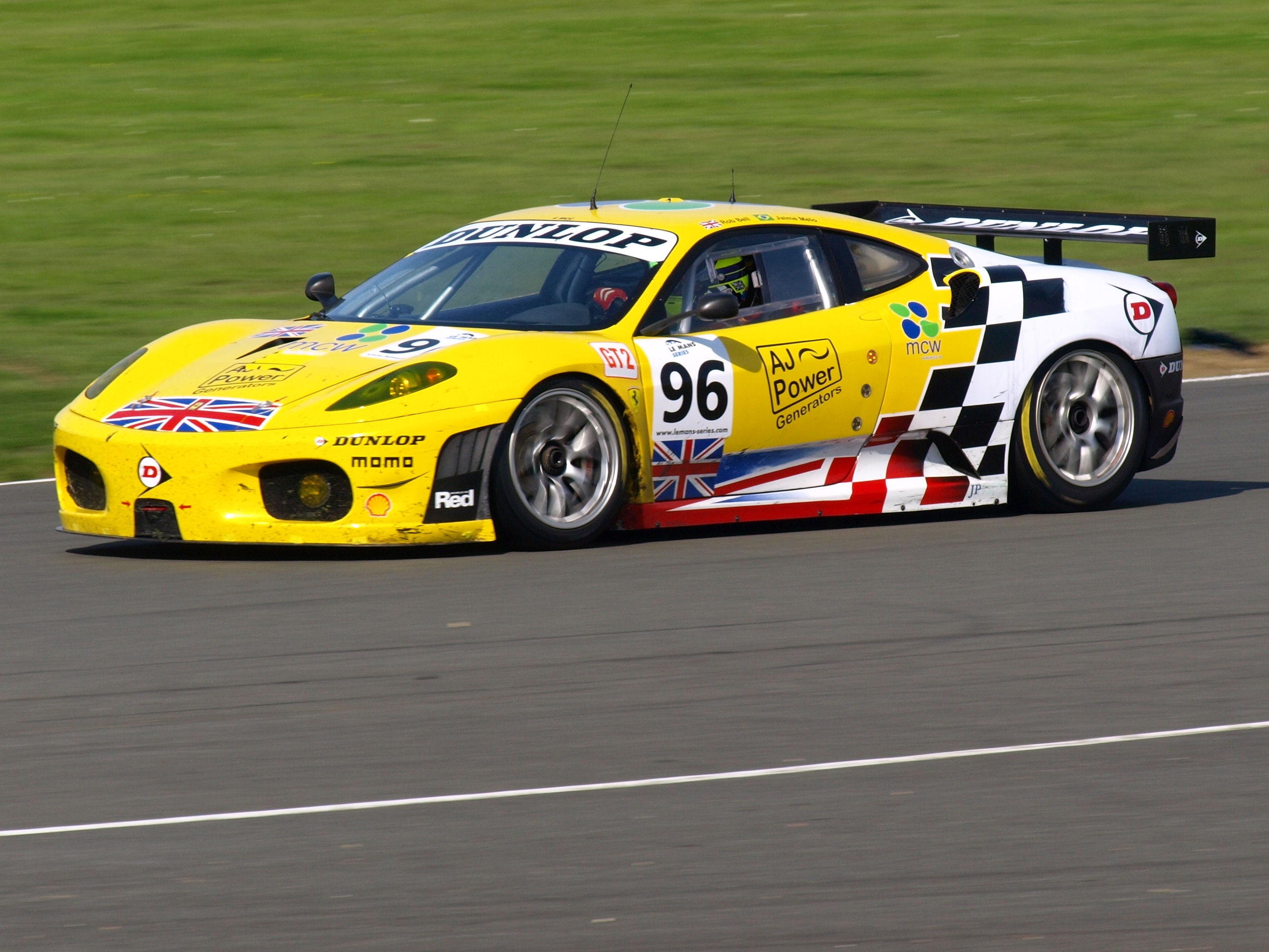 Robert Bell driving a Virgo Motorsports' Ferrari F430 GT2 at the 2008 1000km of Silverstone.